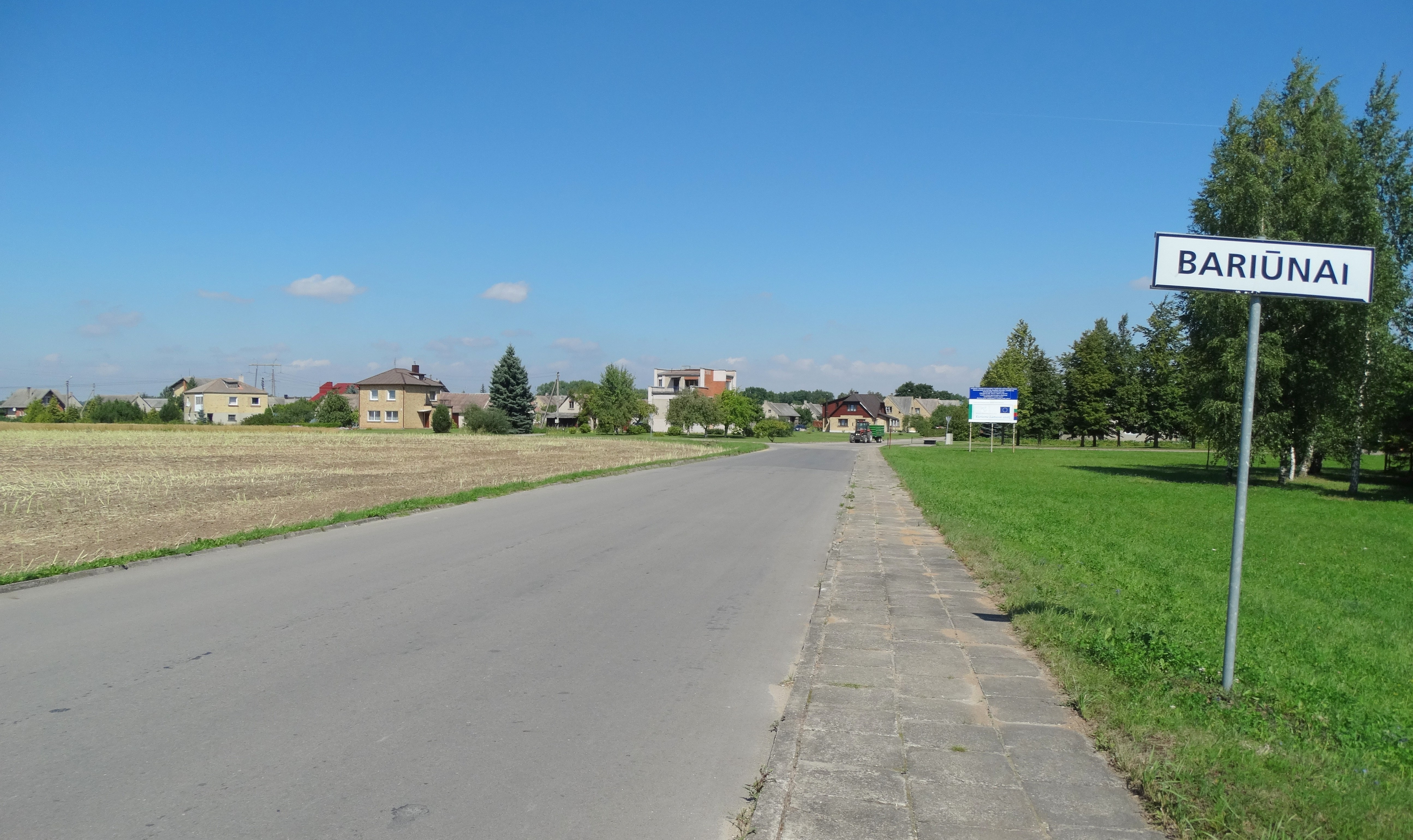 Bariūnai, Joniškis District, Lithuania